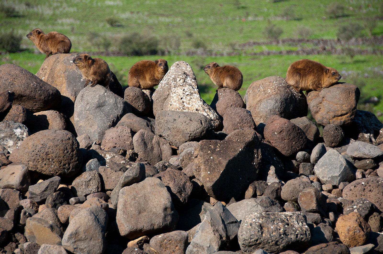 Hyraxes